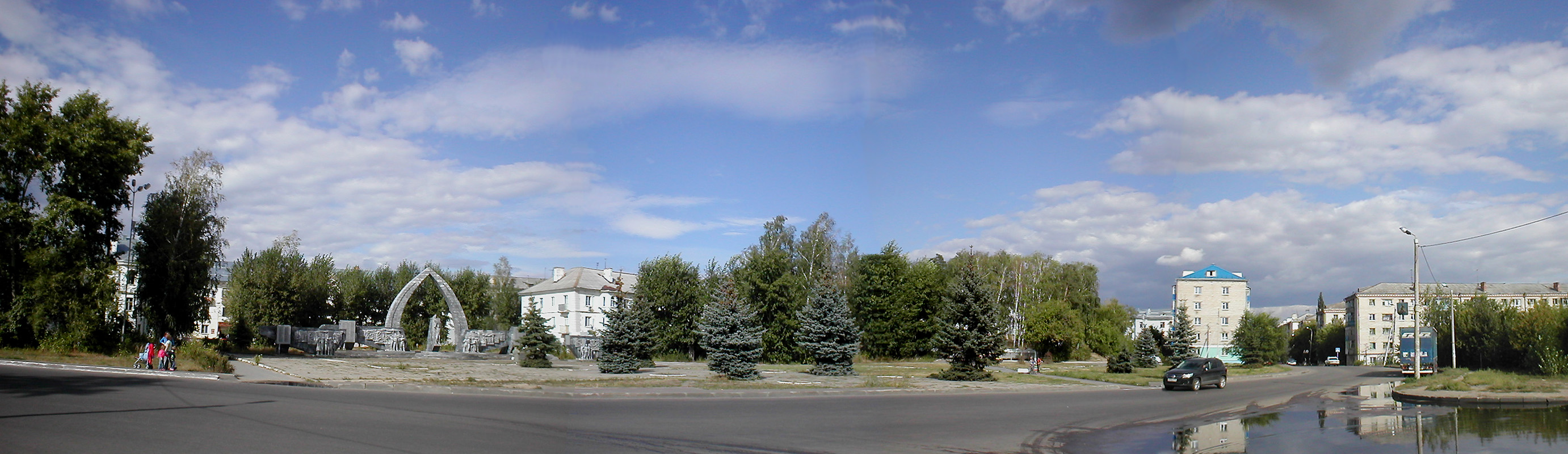 Glory Alley square in Yudino locality in Kazan